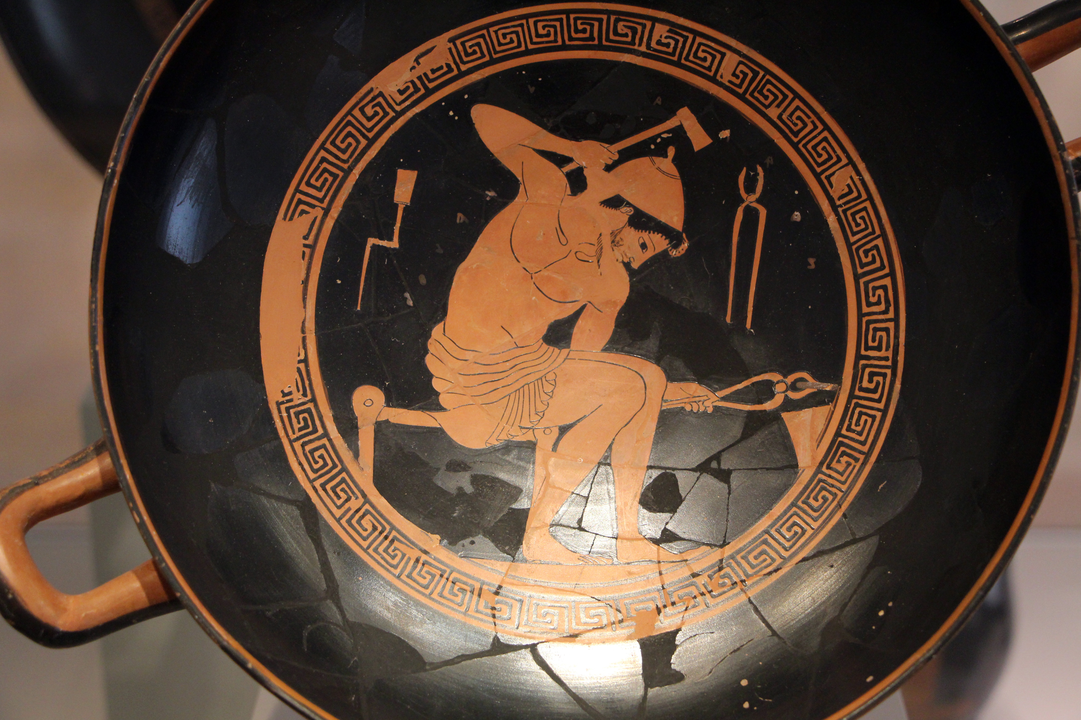 Ancient Greek pottery in the Antikensammlung Berlin